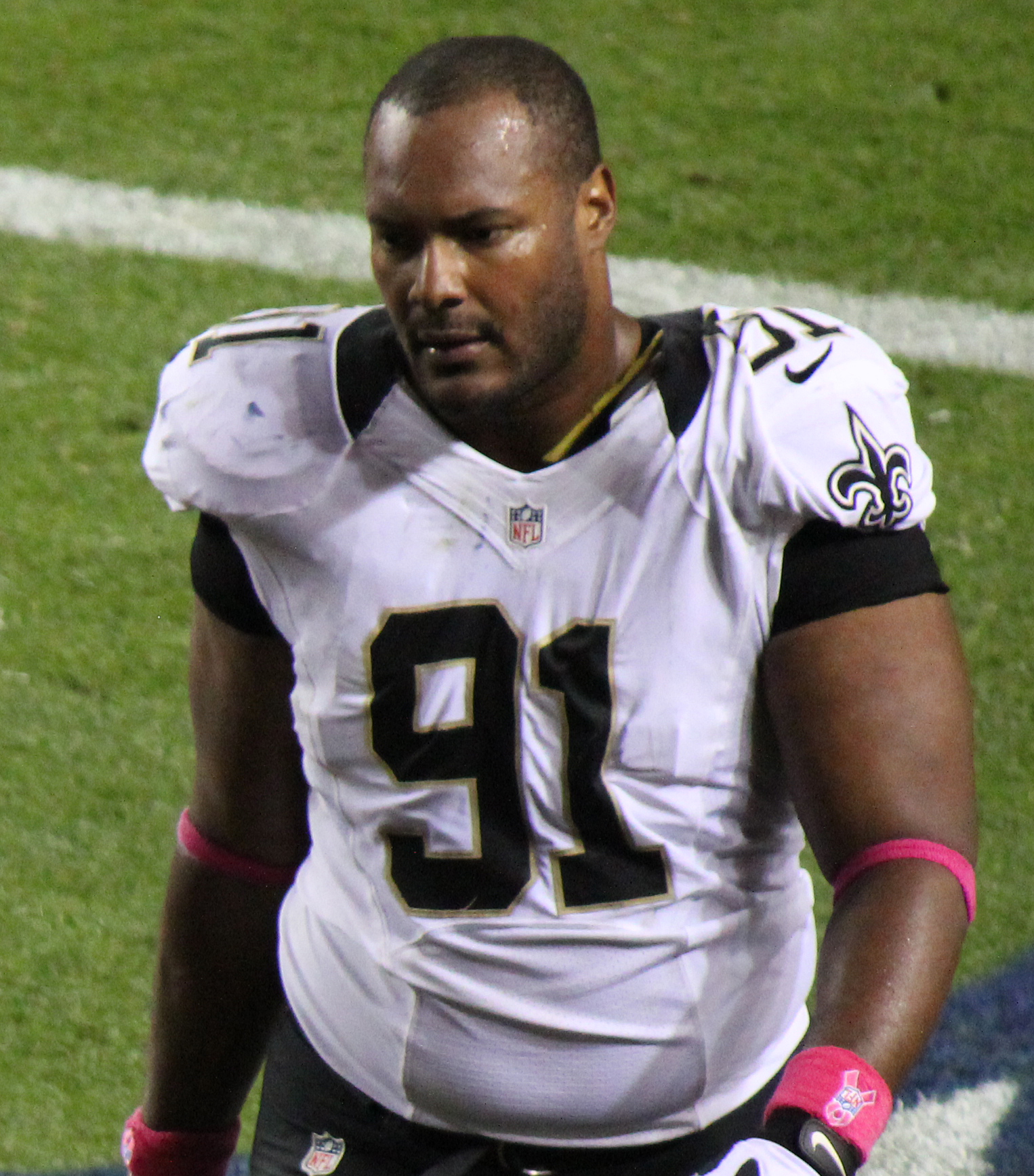 Will Smith, a player on the National Football League.